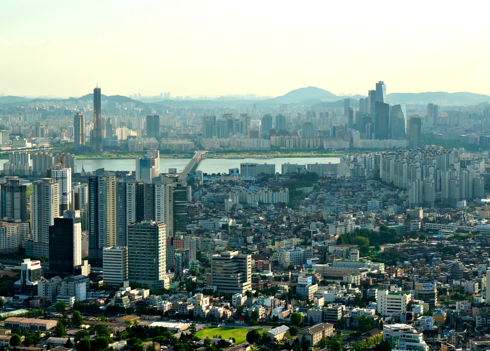 Seoul, South Korea